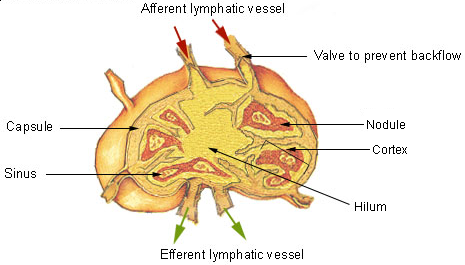 Lymph node